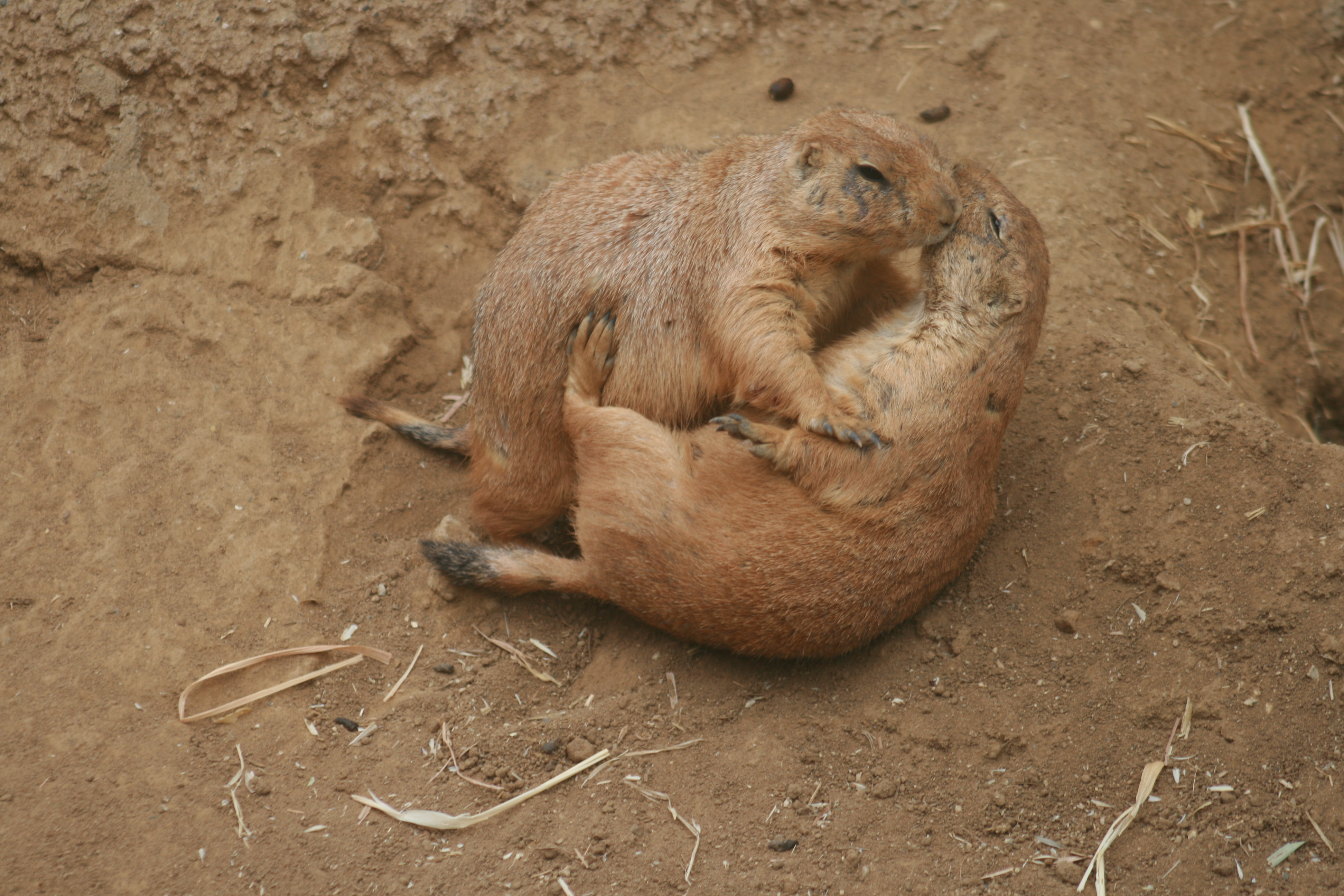 Fighting Black-tailed Prairie Dogs